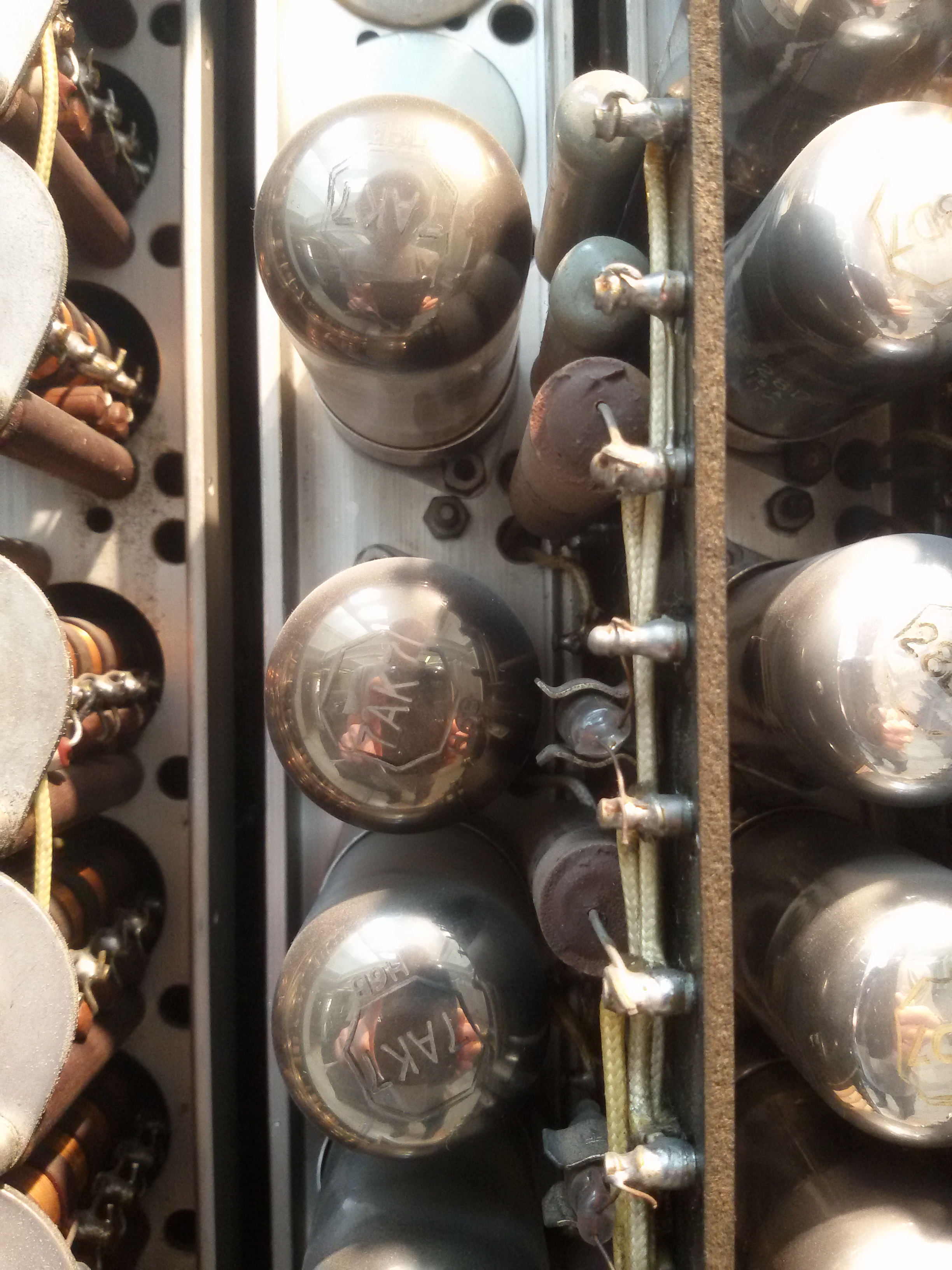 7AK7 vacuum tubes in a UNIVAC I computer. The 7AK7 is a pentode vacuum tube (thermionic valve) designed for service in electronic computers. This computer operated at the Batelle Institute in Frankfurt (at the time W. Germany) from 19th October 1956 until 1963, and is exhibited at the Deutsches Museum in Munich, Germany.